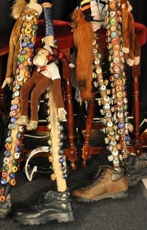 A small group of Mendoza's or Monkey sticks.